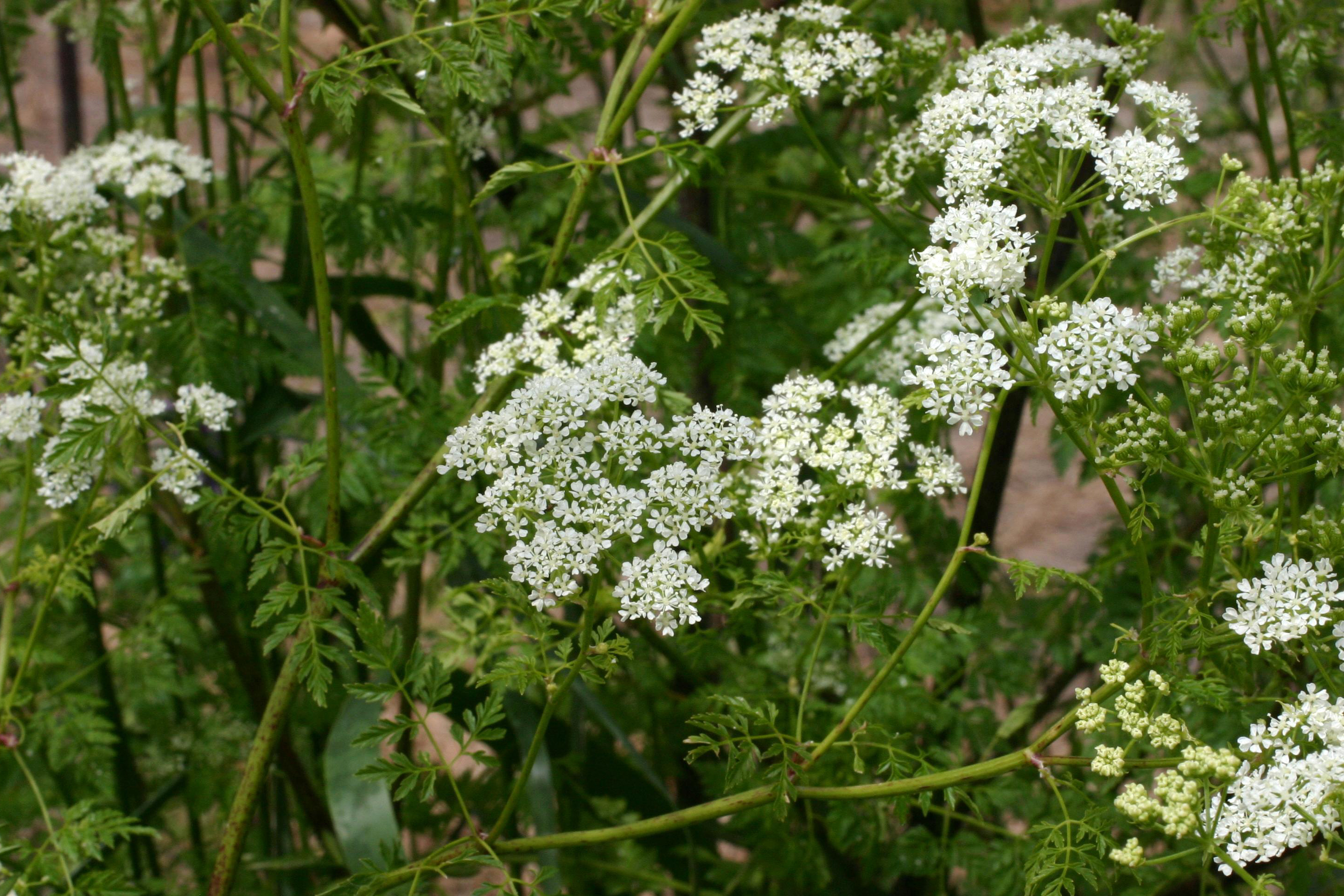 poison-hemlock Conium maculatum L. Descriptor: Flower(s) Description: flower Image type: Field Image location: Oregon, United States